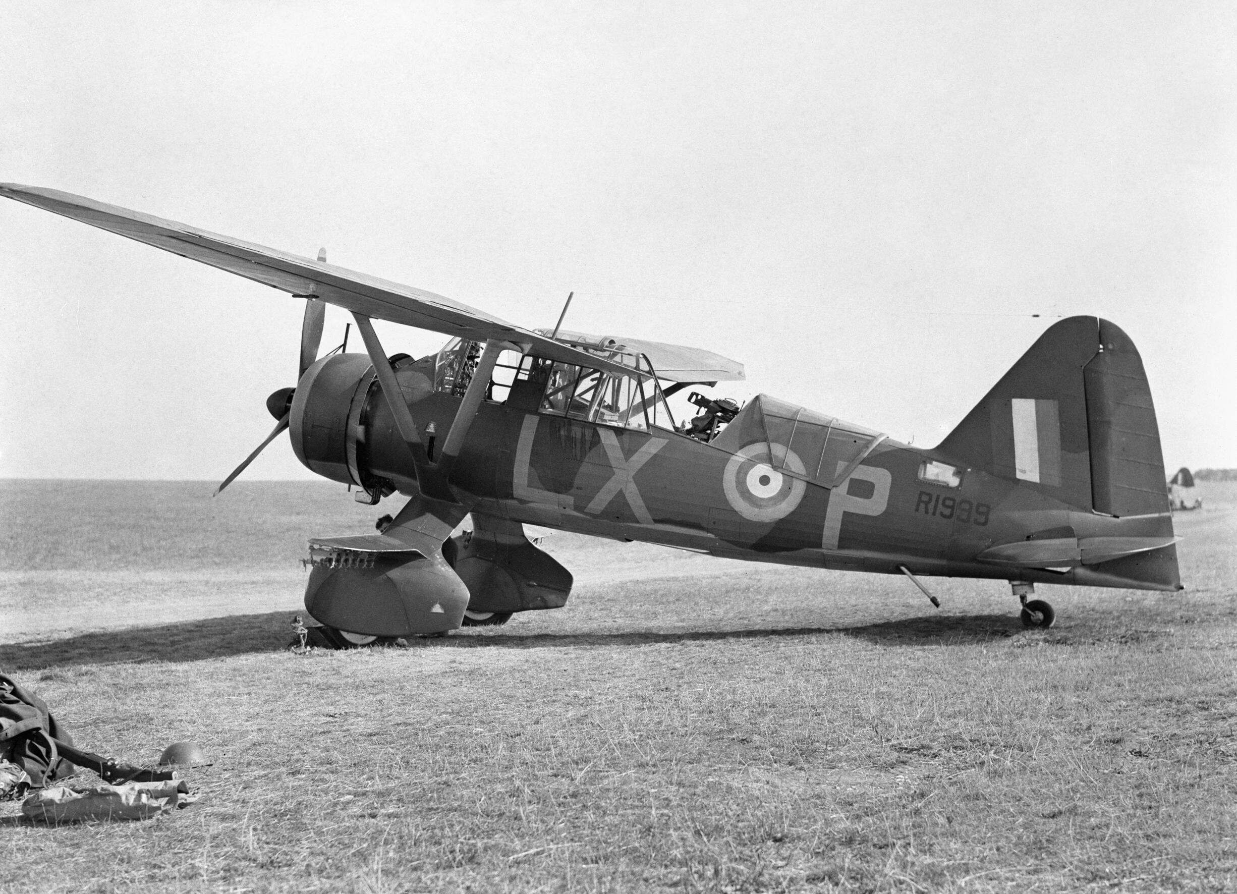 No. 22 (army Co-operation) Group, Royal Air Force, June-november 1940. Westland Lysander Mark II, R1999 'LX-P', of No. 225 Squadron RAF, undergoing maintenance at Tilshead, Wiltshire. Note the single Lewis Mark III machine gun on its Fairey mounting in the rear cockpit.